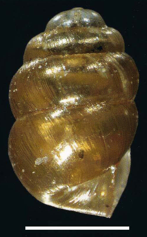 Photo of a lateral view of a shell of a holotype of Vertigo ultimathule. Locality: Sweden, Lappland, Pältsan area, Gobmevari, SSE of Pältsastugan. Scale bar is 1 mm.